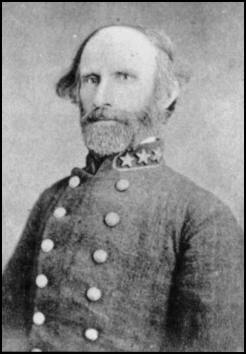 Photo of Alexander Welch Reynolds (1816-1876)